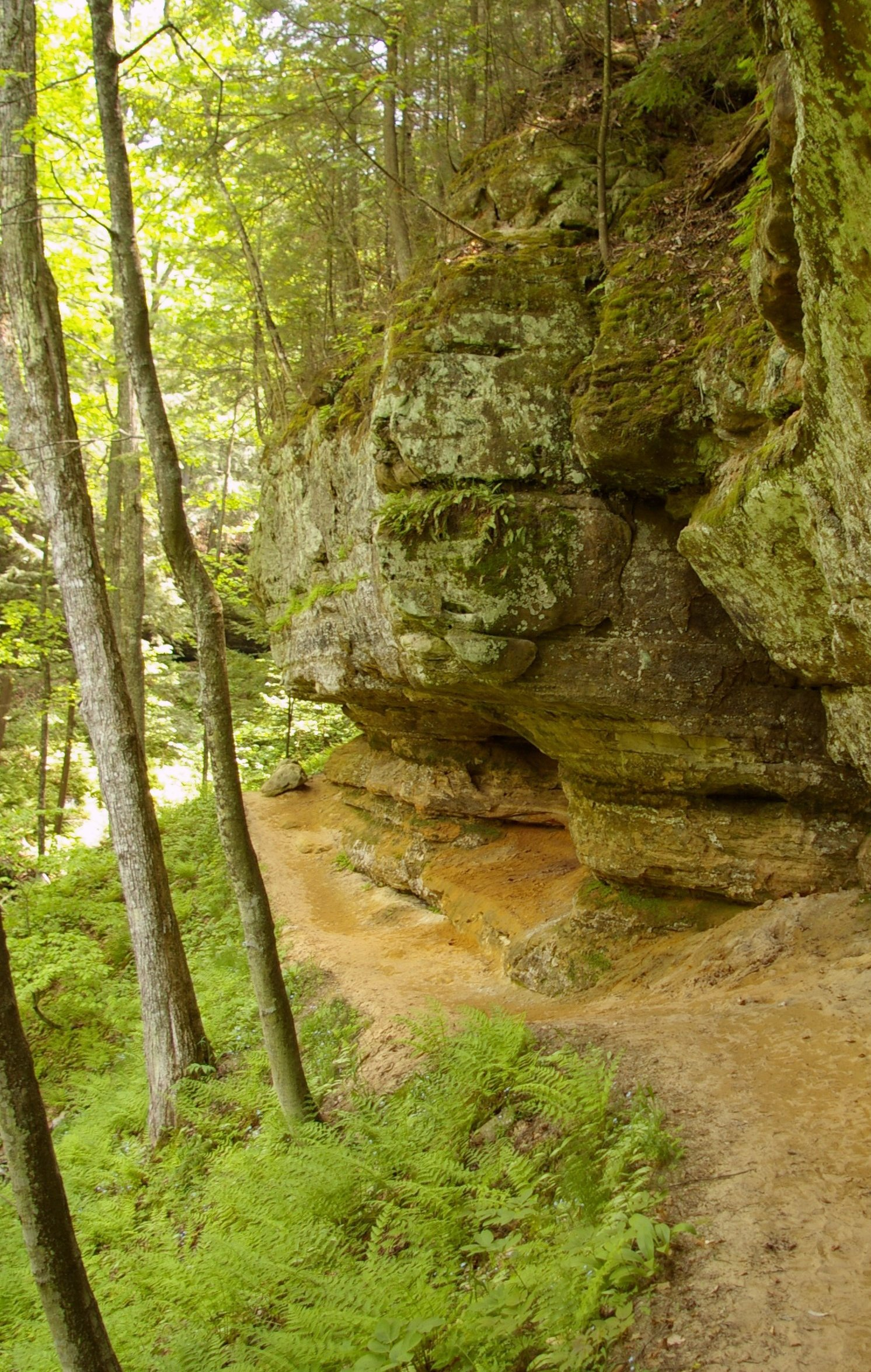 Trail leading to Memorial Falls near Munising Mi.